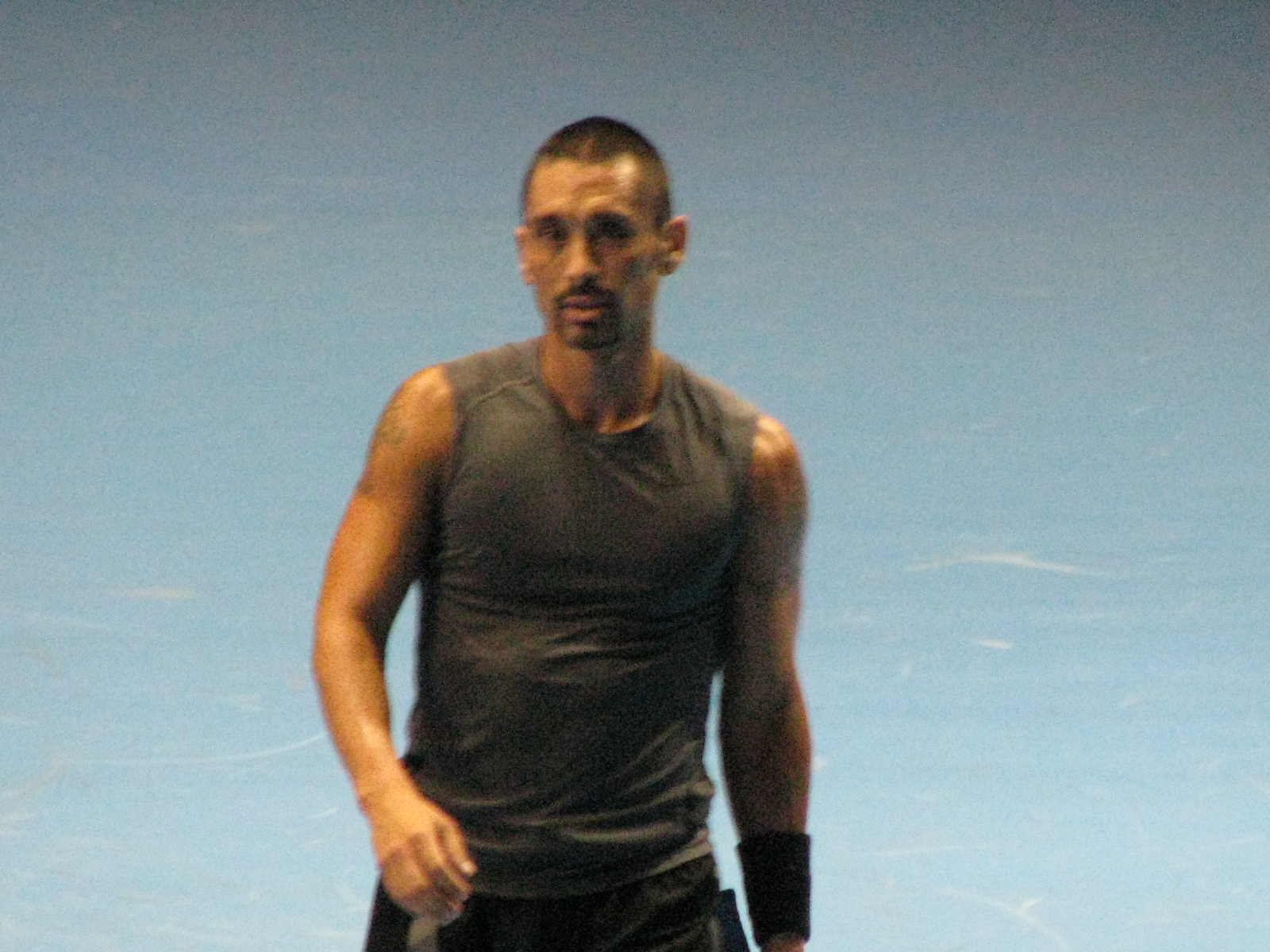 Marcelo Ríos, chilean tennis player.